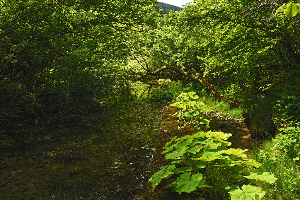 Immediately after its karstic source, on Ribnica there are a few smaller dams.